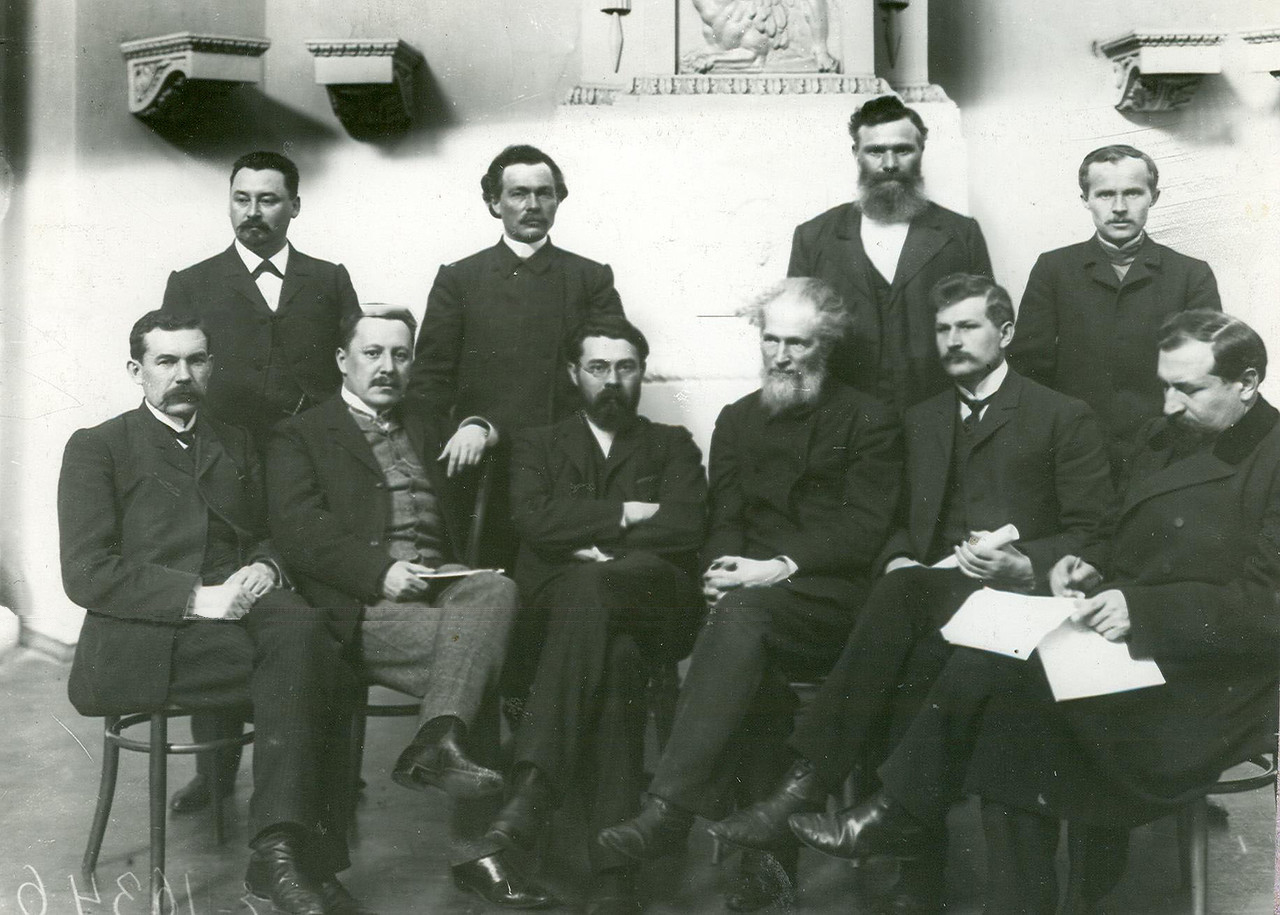 The members of the second Russian State Duma from Donskaya Oblast, 1907.